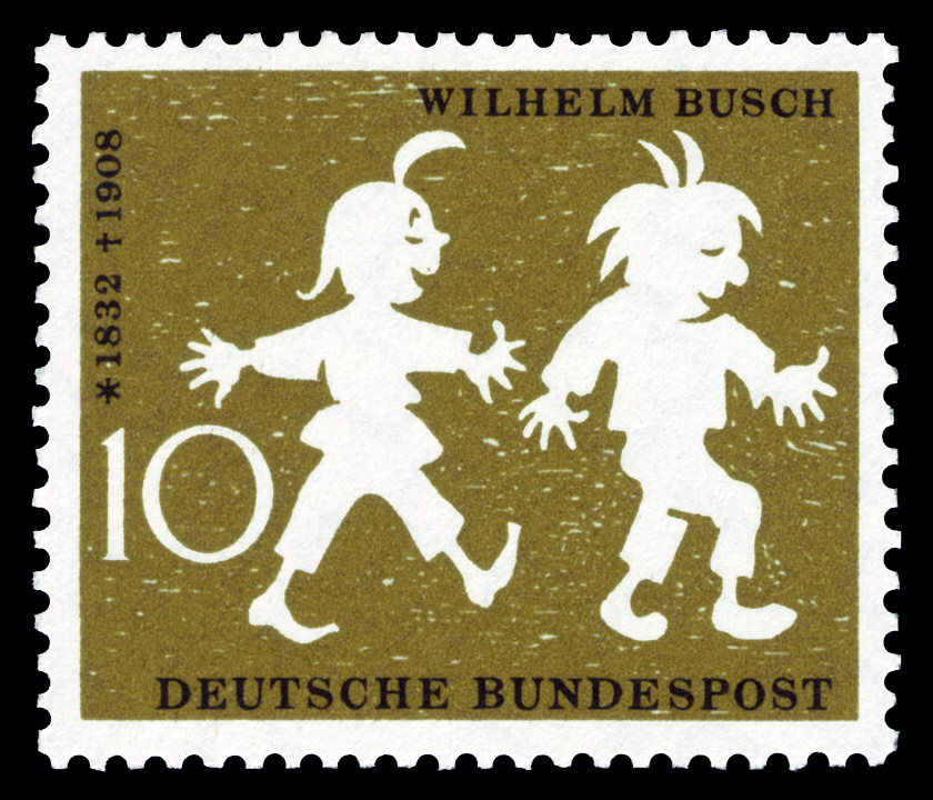 stamp for 50 years of death of Wilhelm Busch (1832-1908), Max and Moritz Graphics by Michel und Kieser Ausgabepreis: 10 Pfennig First Day of Issue / Erstausgabetag: 09. Januar 1958 Michel-Katalog-Nr: 281